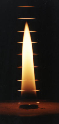 SiC filament based pyrometer. Image of the test flame and glowing fibers. The flame is about 70 mm long.